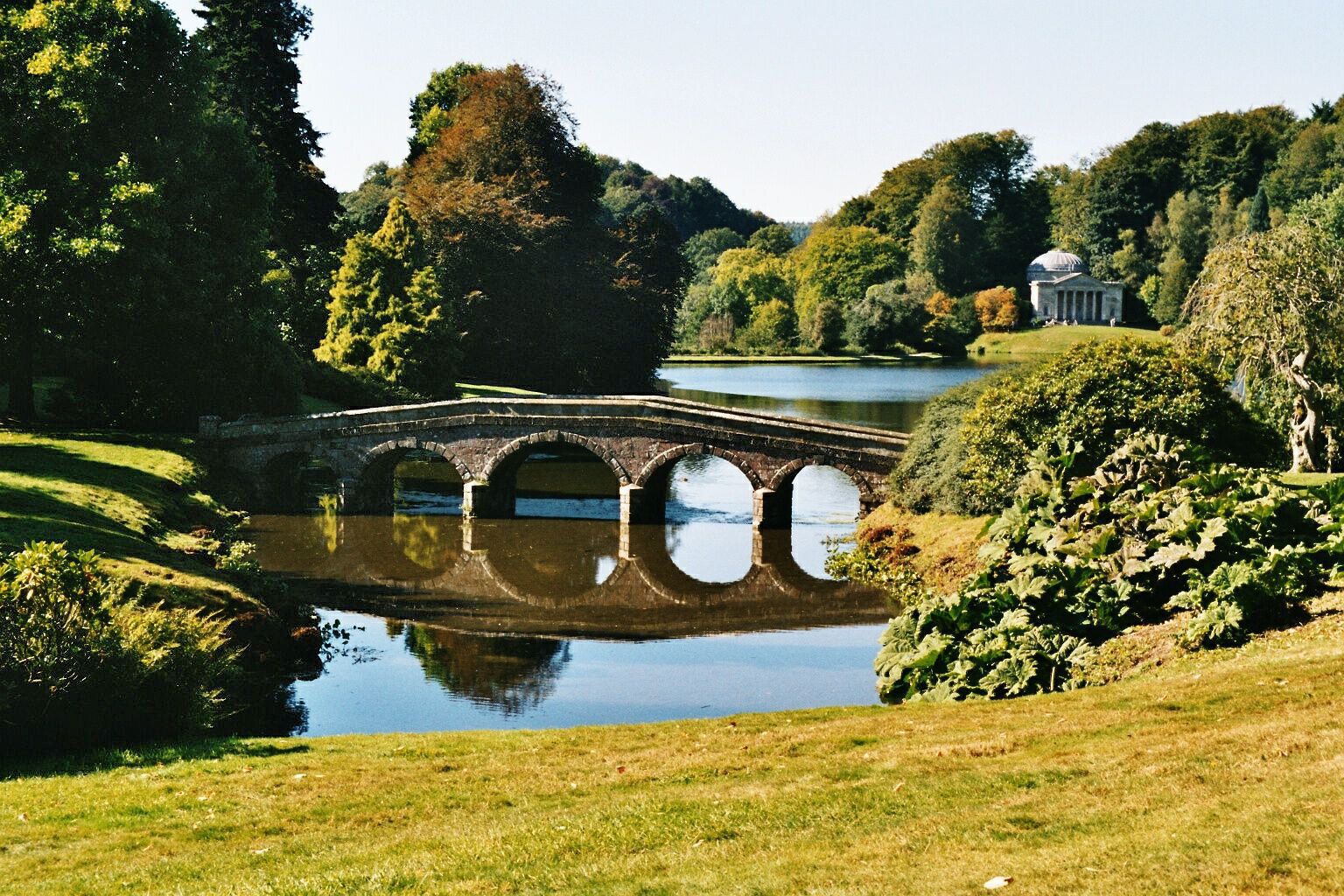 Stourhead Garden -Picture of one of the most beautiful gardens in Southern England